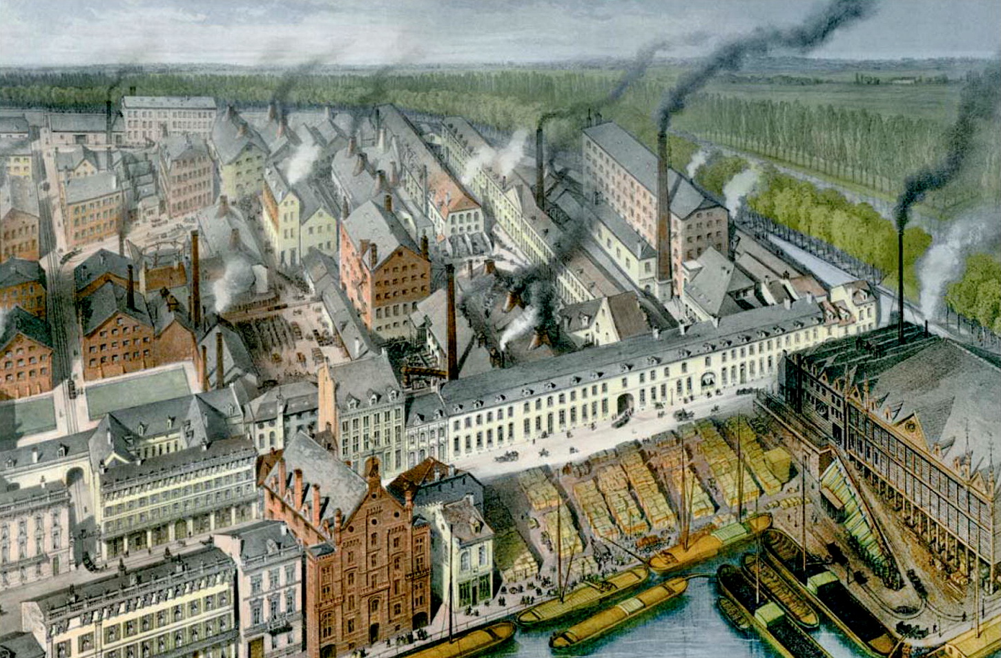 View of Bassin and Boschstraat in Maastricht, the Netherlands, ca 1865, with glass and pottery factories and other buildings belonging to Petrus Regout. Drawing from a celebratory family album of Petrus Regout, published in 1865.